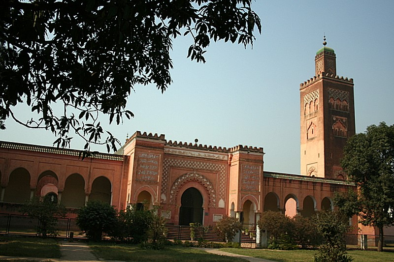 Moorish Mosque A spectacular example of the secular history of Kapurthala is the Moorish Mosque, a famous replica of the Grand Mosque of Marakesh, Morocco, was built by a French architect, Monsieur M Manteaux. Its construction was commissioned by the last ruler of Kapurthala, Maharajah Jagatjit Singh and took 13 years to complete between 1917 and 1930. It was then consecrated in the presence of the late Nawab of Bhawalpur. The Mosque's inner dome contains decorations by the artists of the Mayo School of Art, Lahore. The Mosque is a National Monument under the Archeological Survey of India.It was one of the monumental creations in the State during the premiership of late Diwan Sir Abdul Hamid Kt., CIE,OBE.It was his keen interest with Maharaja's blessings that the mosque was completed. Its wooden model lay at the entrance of the Lahore Museum.